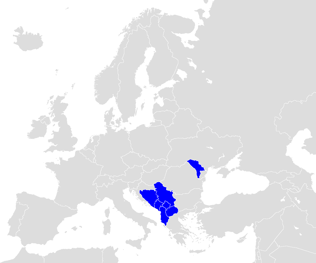 Map of Europe with CEFTA members highlighted.